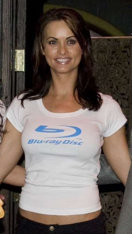 American actress and glamour model Karen McDougal (Playboy Playmate of the Year for 1998), at the Home Theater Forum 2007 in Las Vegas, Nevada, United States.